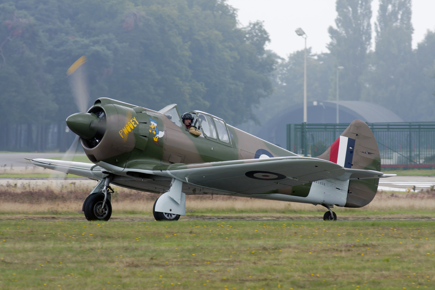 Kleine Brogel (Belgium) spotters day, 20 September 2015. The only CA.13 Boomerang (A46-139 / NX32CS) in Europe is owned by a Dutchman and flown from Antwerpen. The WW2-fighter is a replica with the original parts of several Boomerangs.